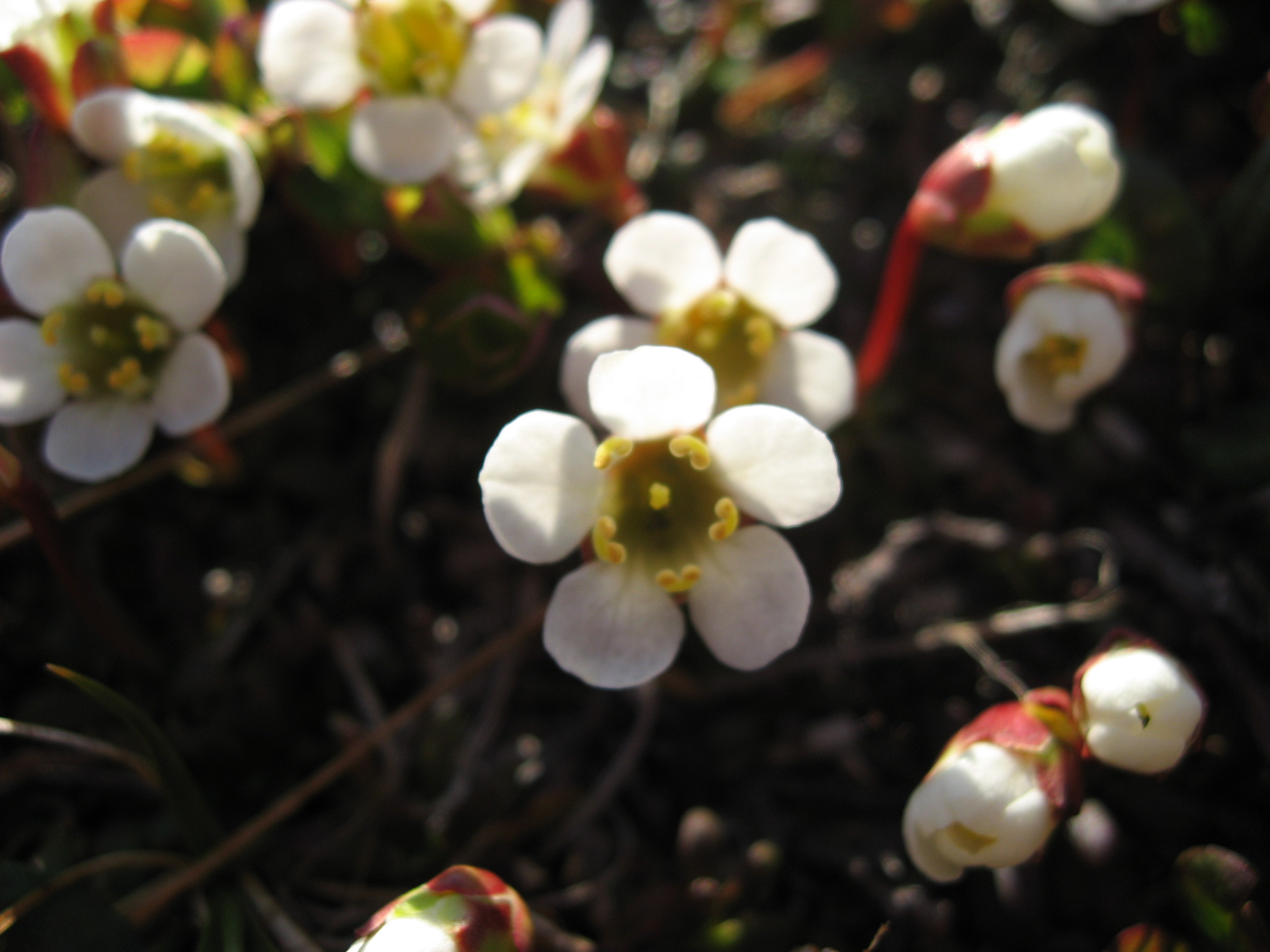 Pincushion plant (Diapensia lapponica) photographed near Upernavik, Greenland.